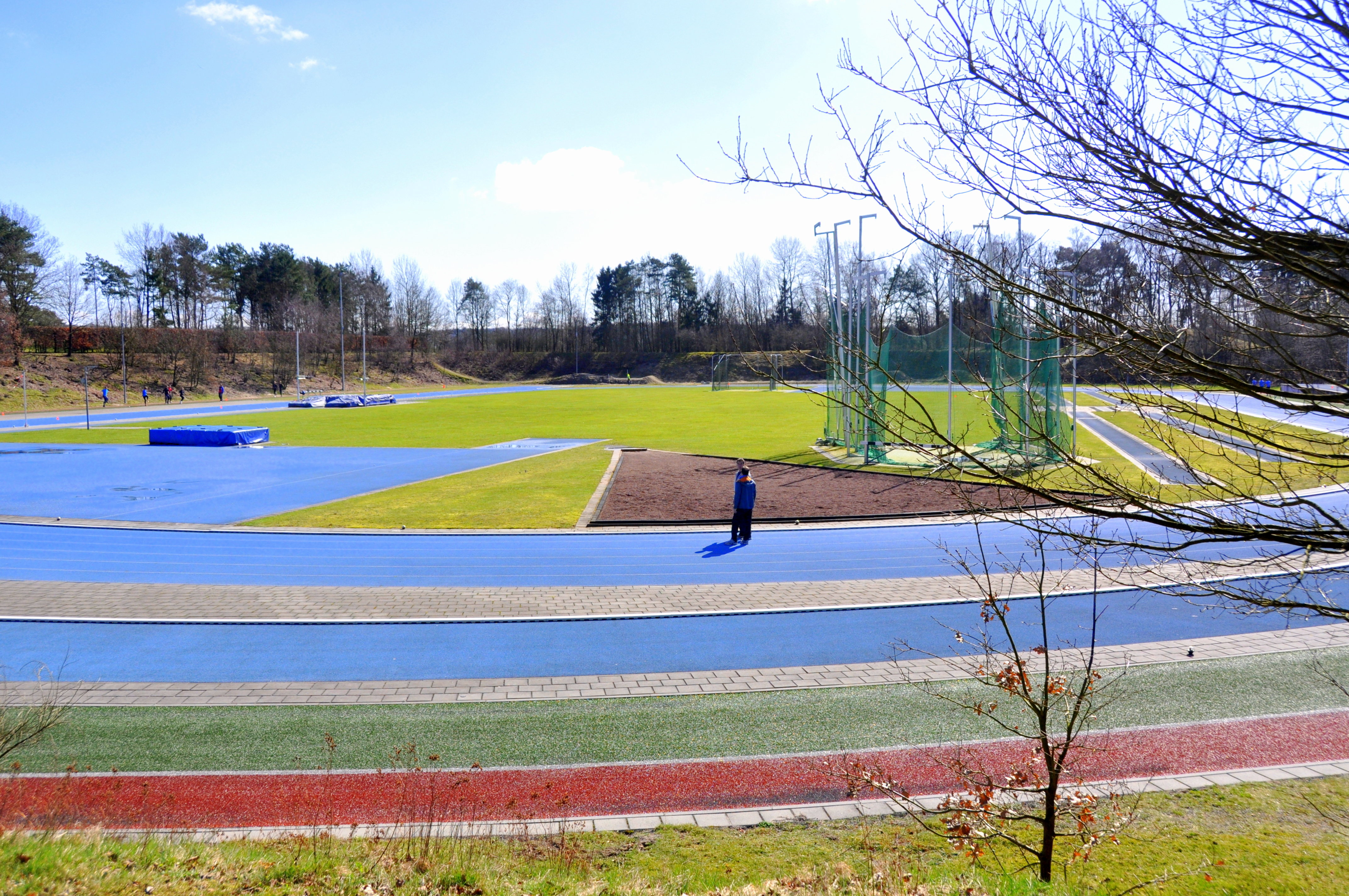 Track and Field Oval, Papendal